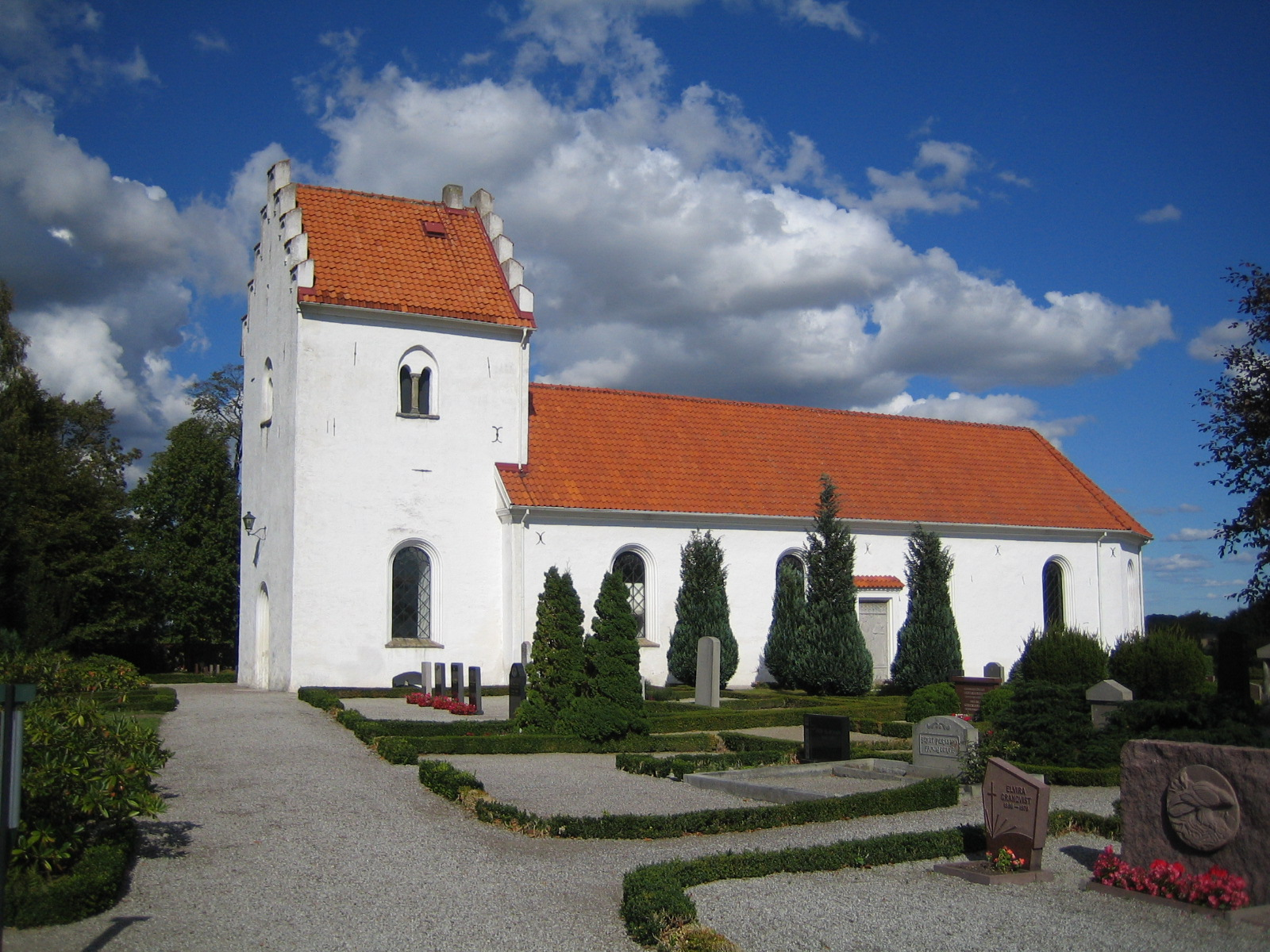 Picture of Borgeby church, Lomma, Sweden.